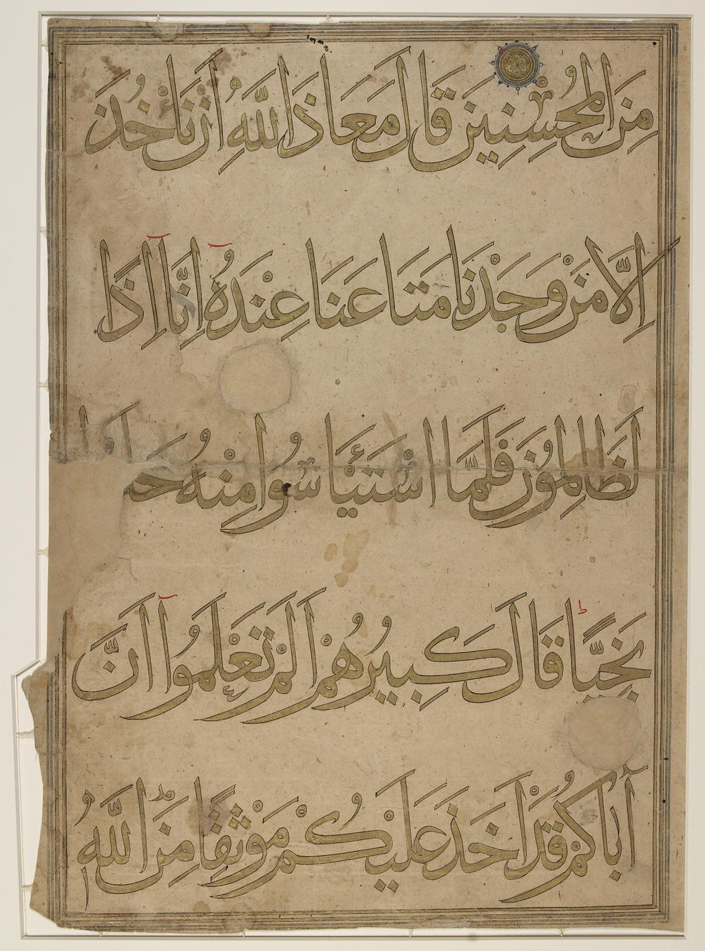 This calligraphic fragment contains verses 78-80 of the 12th chapter of the Qur'an entitled Yusuf (Joseph) in Muhaqqaq script.